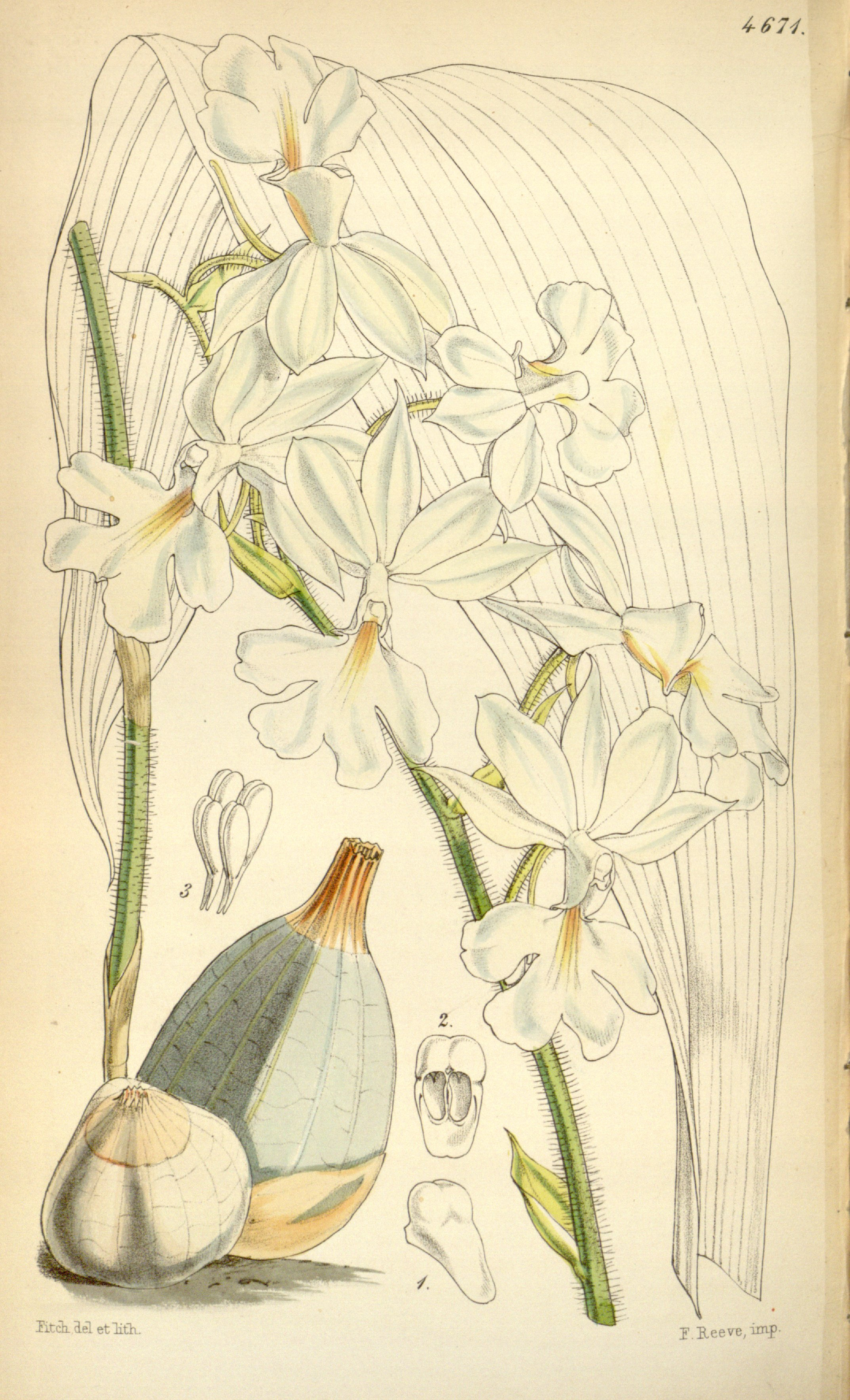 Illustration of Calanthe vestita